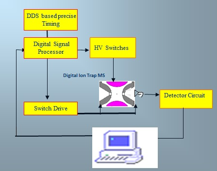 The block diagram of a digital ion trap mass spectrometer